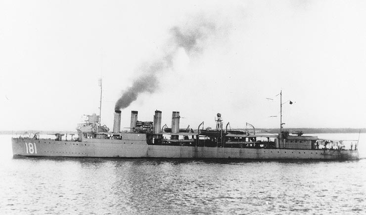 The U.S. Navy destroyer USS Hopewell (DD-181) underway, circa 1919-1920.